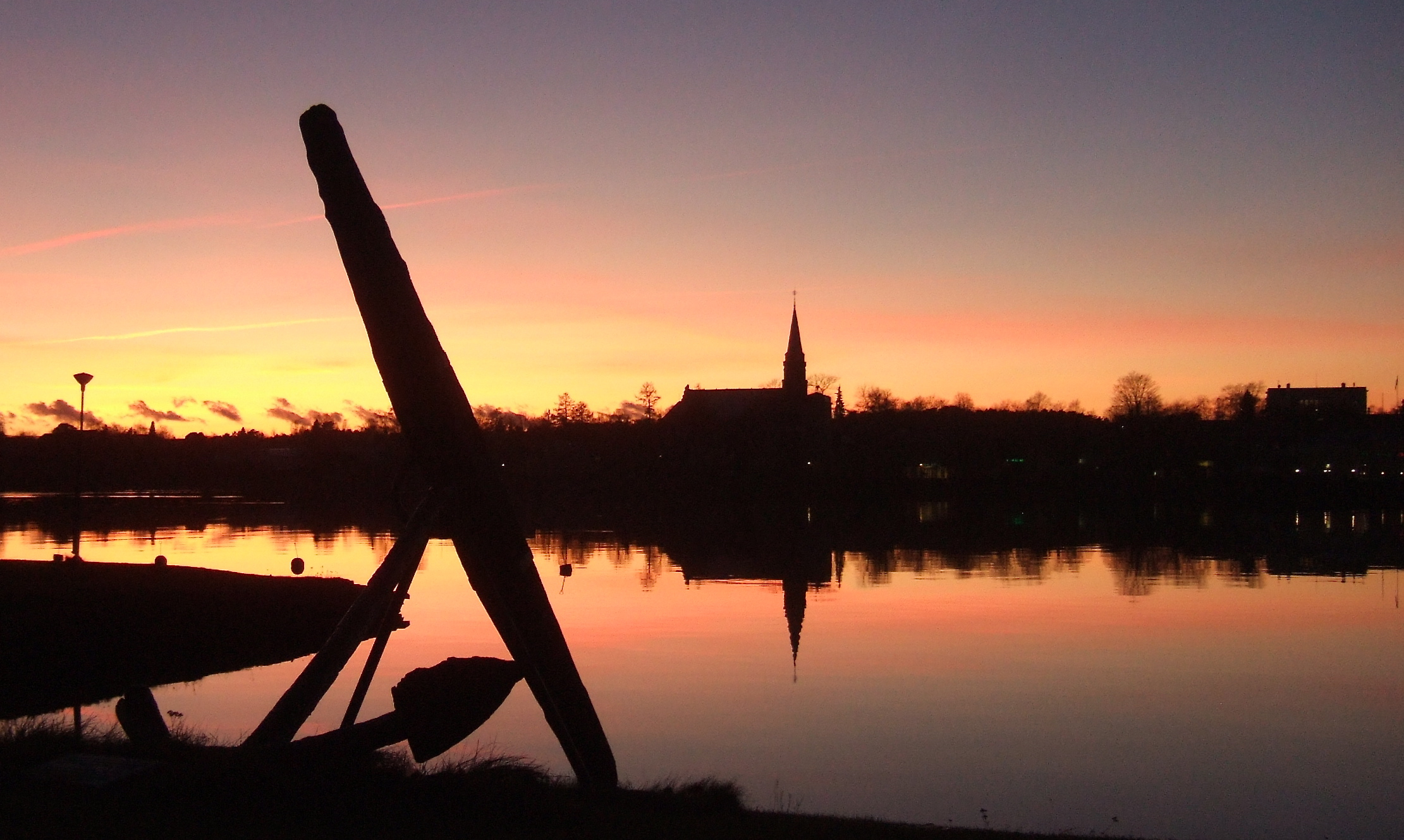 During twilight over the town bay and the silhouette of Kristiinankaupunki, Kristinestad, West of Finland. Finland.